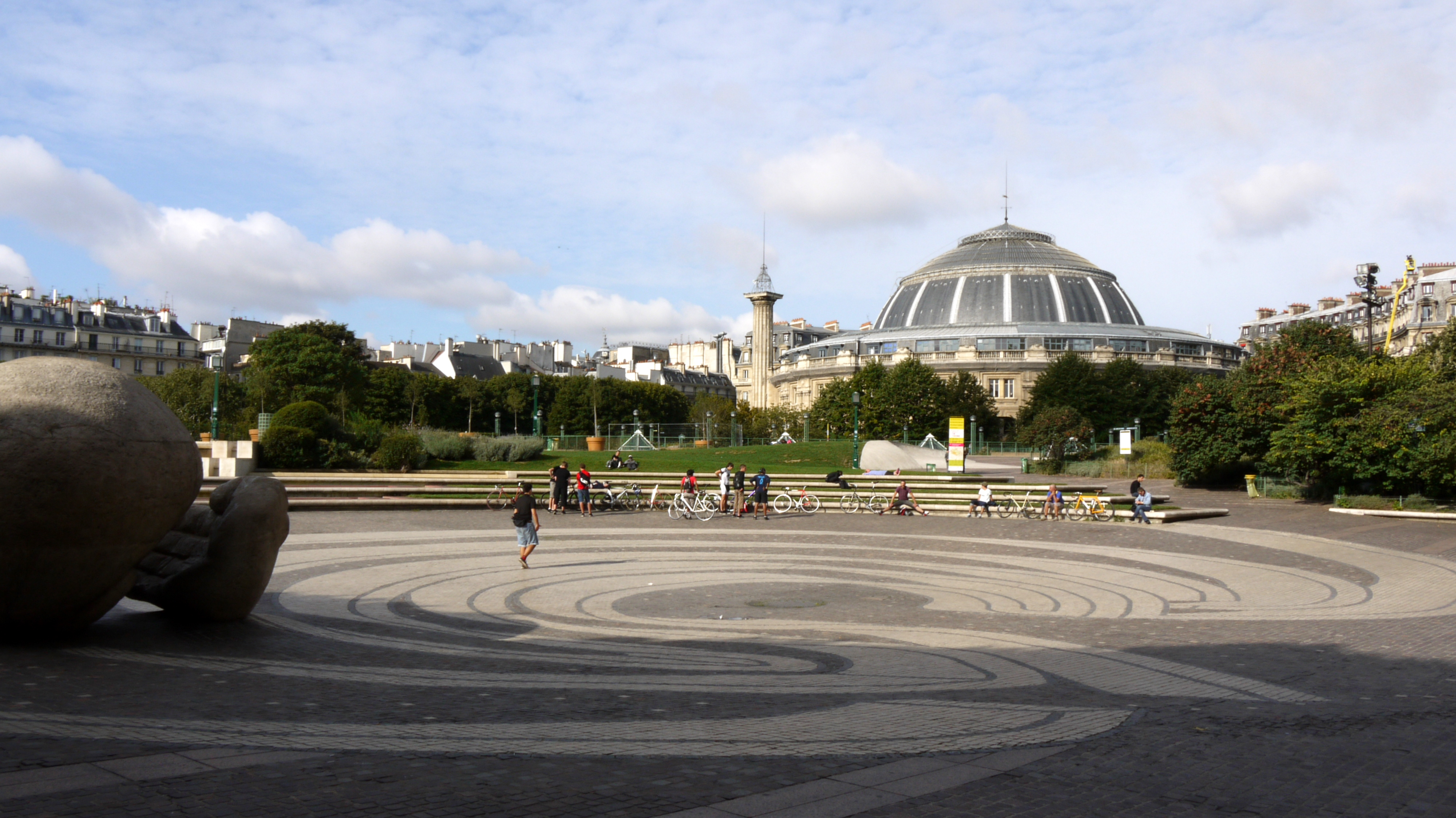 Place René Cassin, Jardin des Halles, Paris